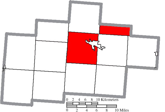 Map of the municipal and township boundaries of Hocking County, Ohio, United States, as of the 2000 census, with the location of Falls Township highlighted. Township borders are shown only in unincorporated areas in order to differentiate incorporated and unincorporated areas more clearly.